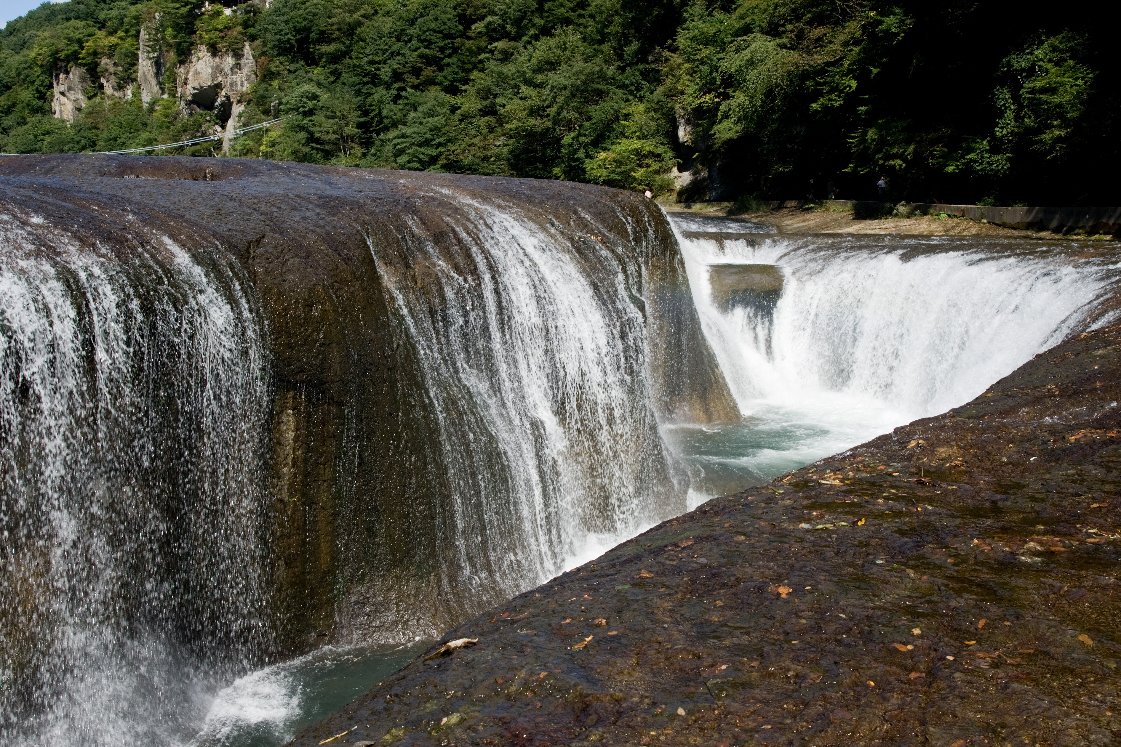 Fukiware falls (Fukiware-no-taki 吹割の滝) in Numata City, Gunma Pref., Japan.